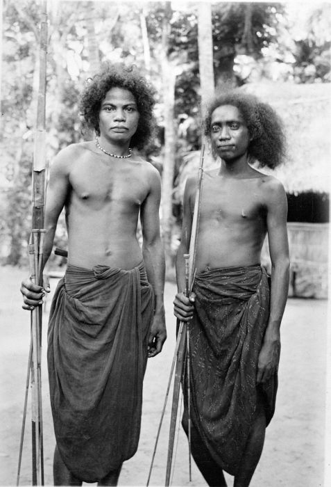 Portrait of two men at Pulau Palue (or Pulau Raja)